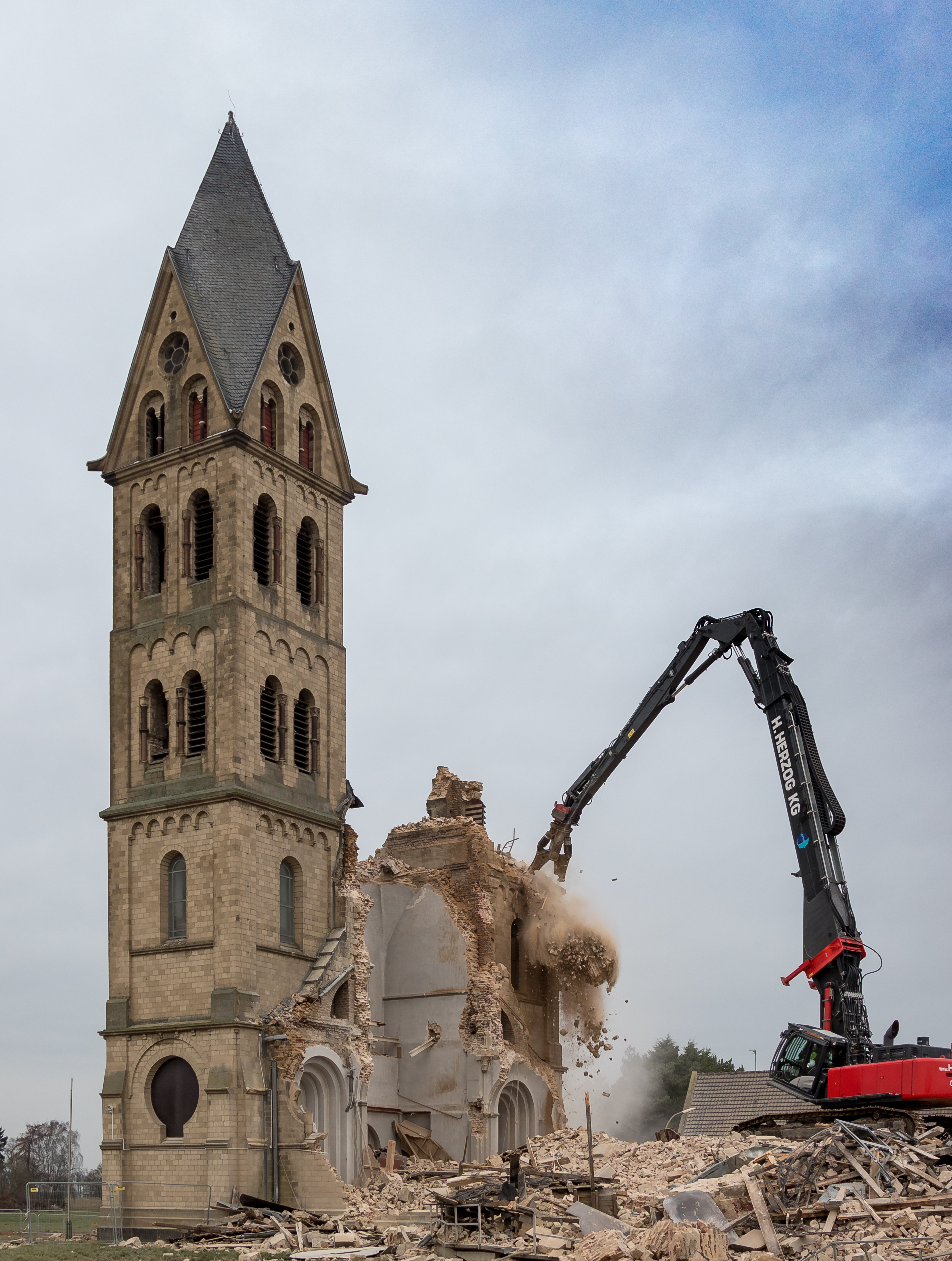 Demolition of the parish church of St. Lambertus (Immerath) due to the upcoming lignite mining by RWE: Demolition of the left tower on January 9, 2018